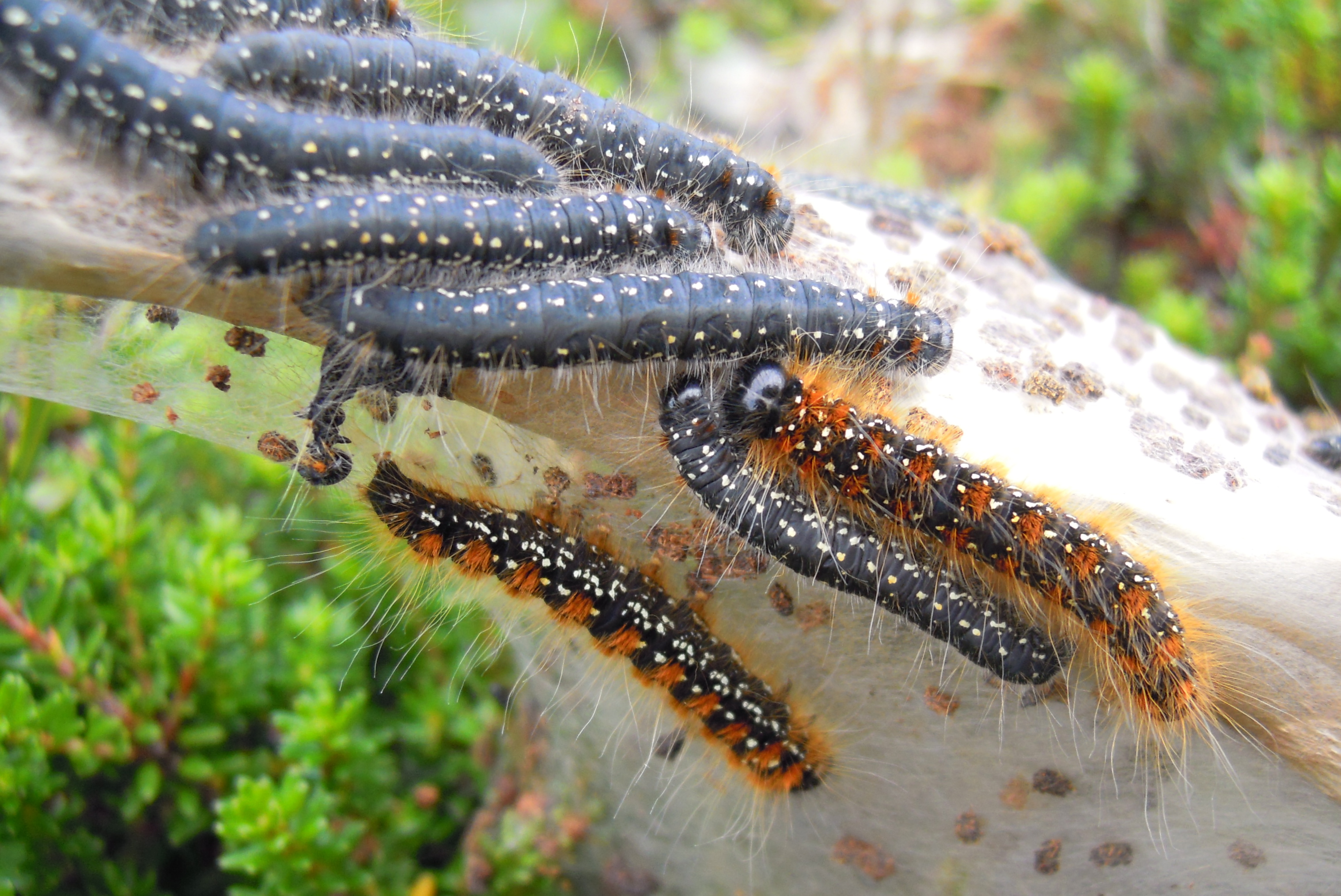 Eriogaster arbusculae - caterpillar - 1400 m above sea level. Kvamsfjell, Møsvatn, Norway.